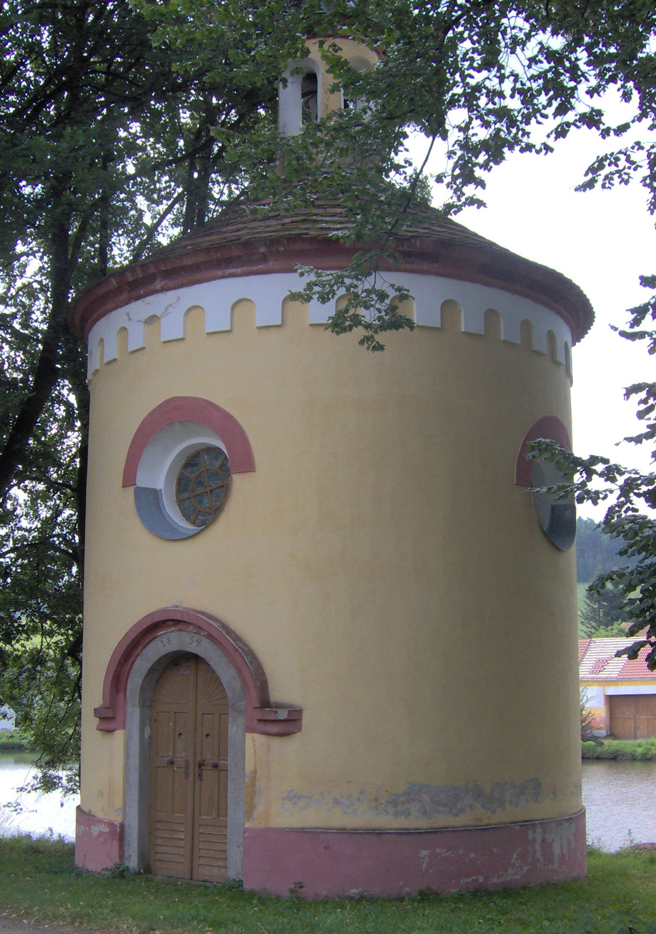 Chapel in Měkynec, Strakonice District, Czech republic